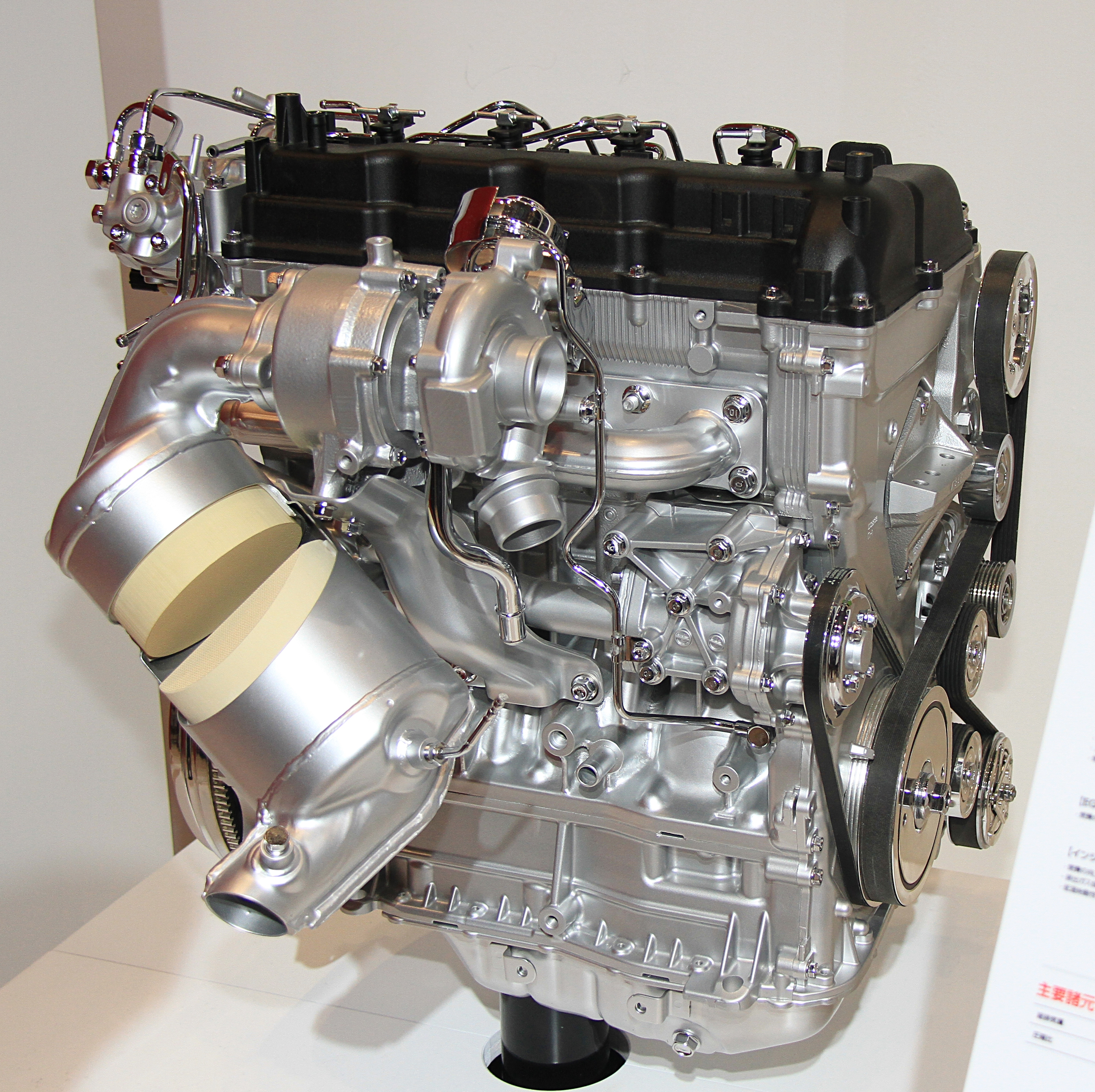 Mitsubishi 4N14 (360Nm/1,500-2,750rpm, 109kW/3,500rpm)